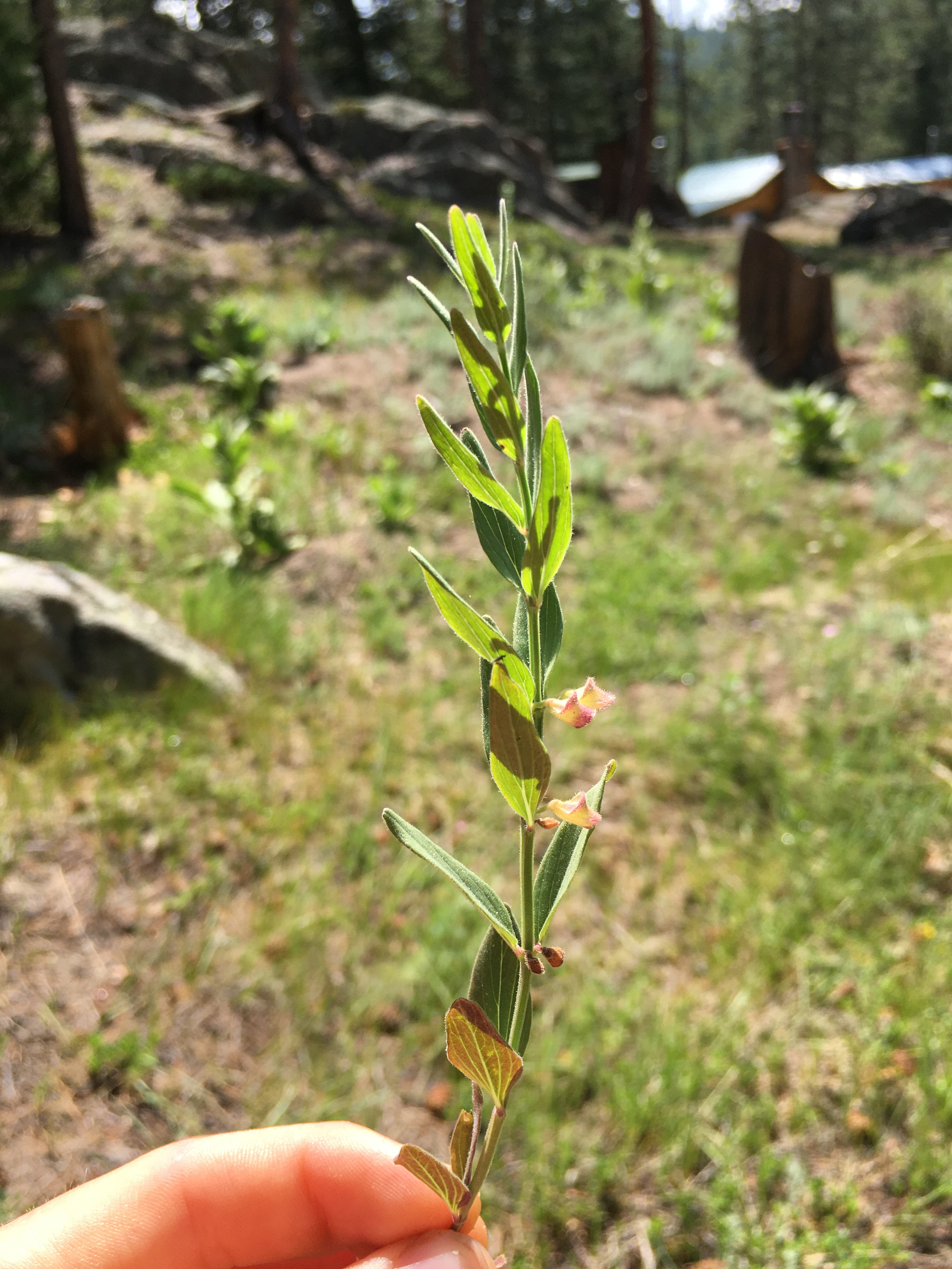 A picture of Scutellaria brittonii post flowering.